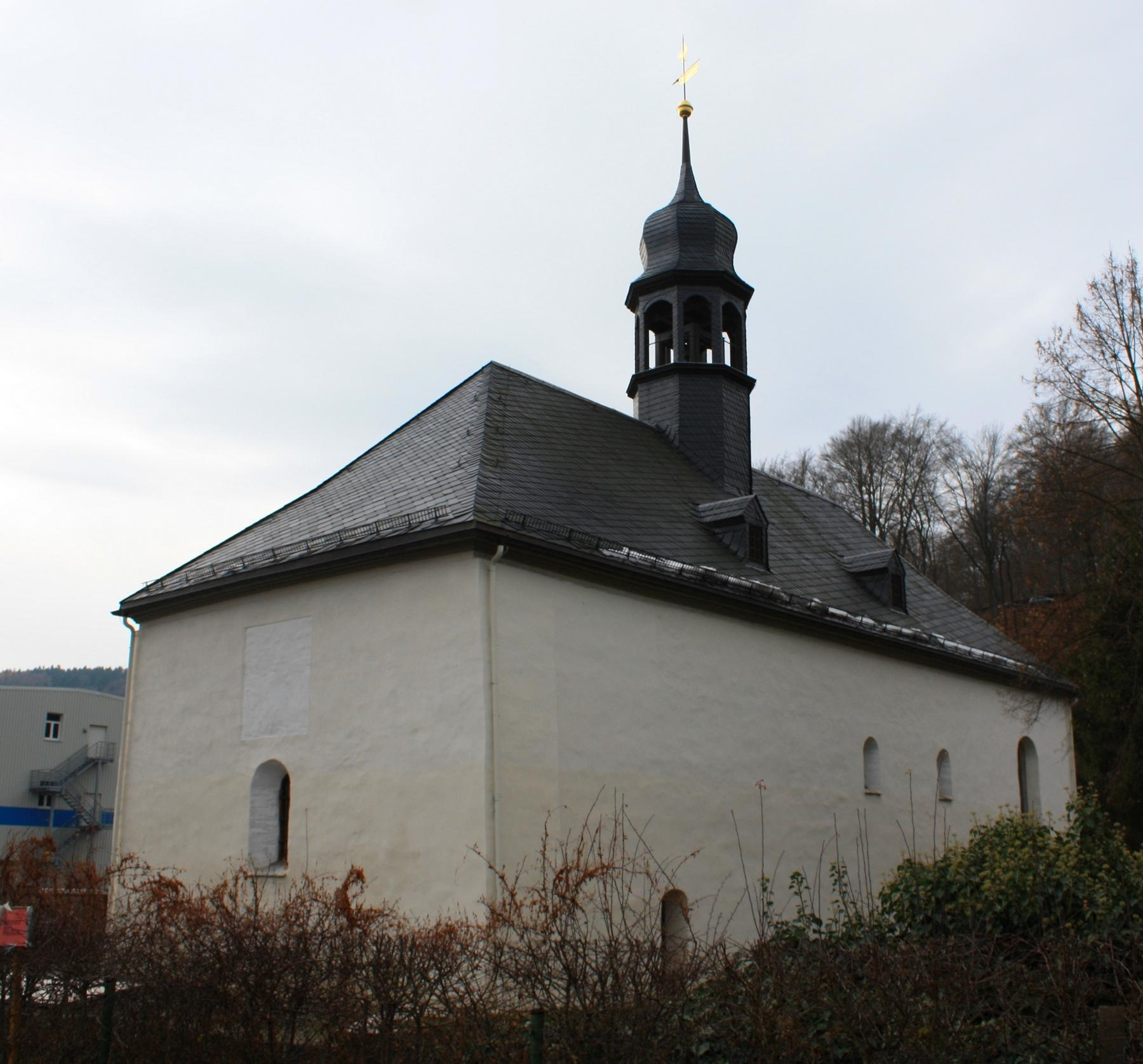 Klösterlein Zelle, Aue, Saxony, View from NE